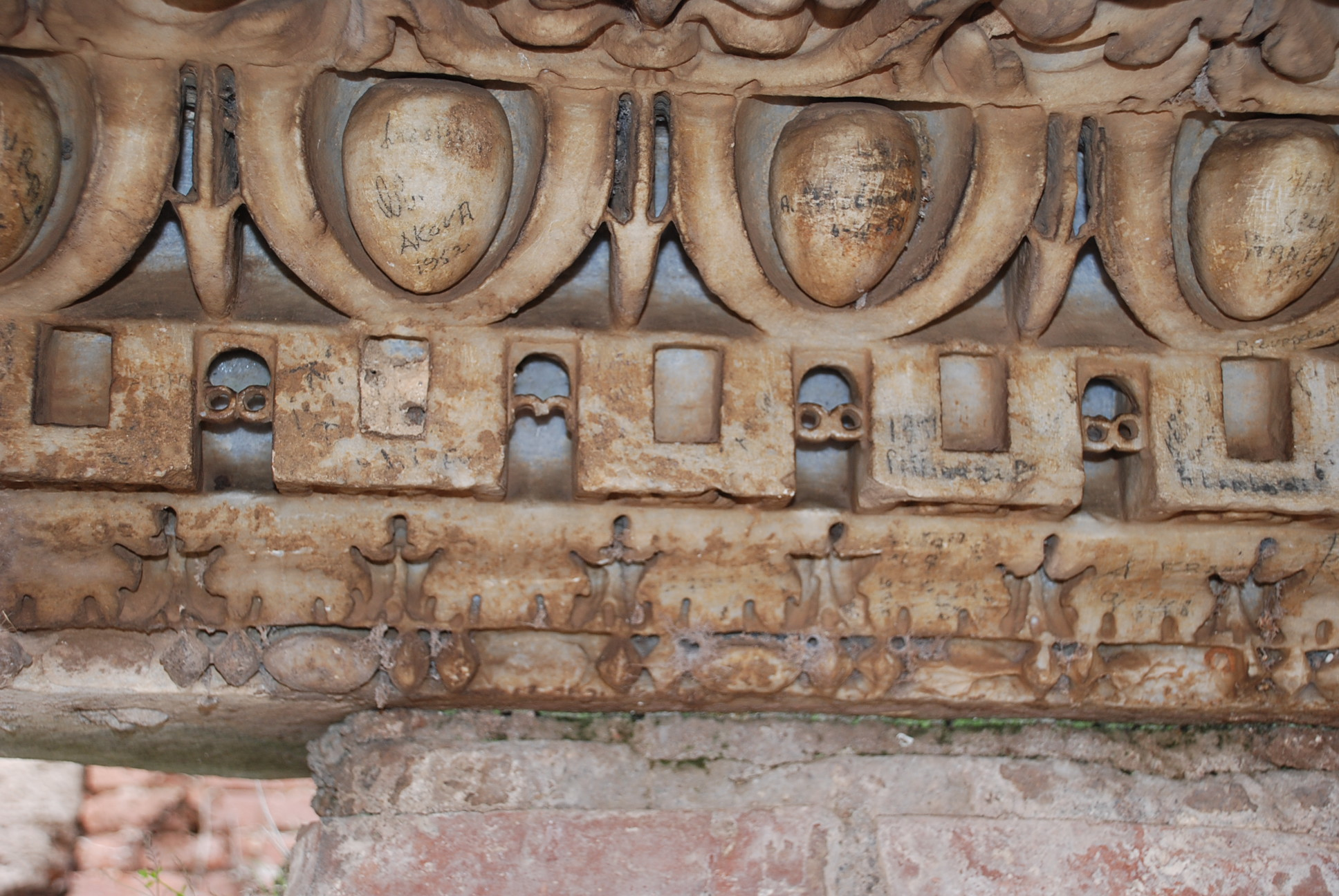 Ostia antica (archaeological site) - "egg and dart" motif